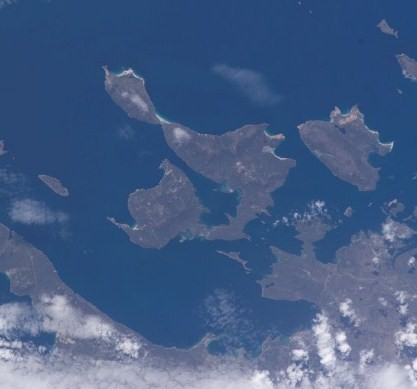 Satellite image of Saunders Island in the Falkland Islands